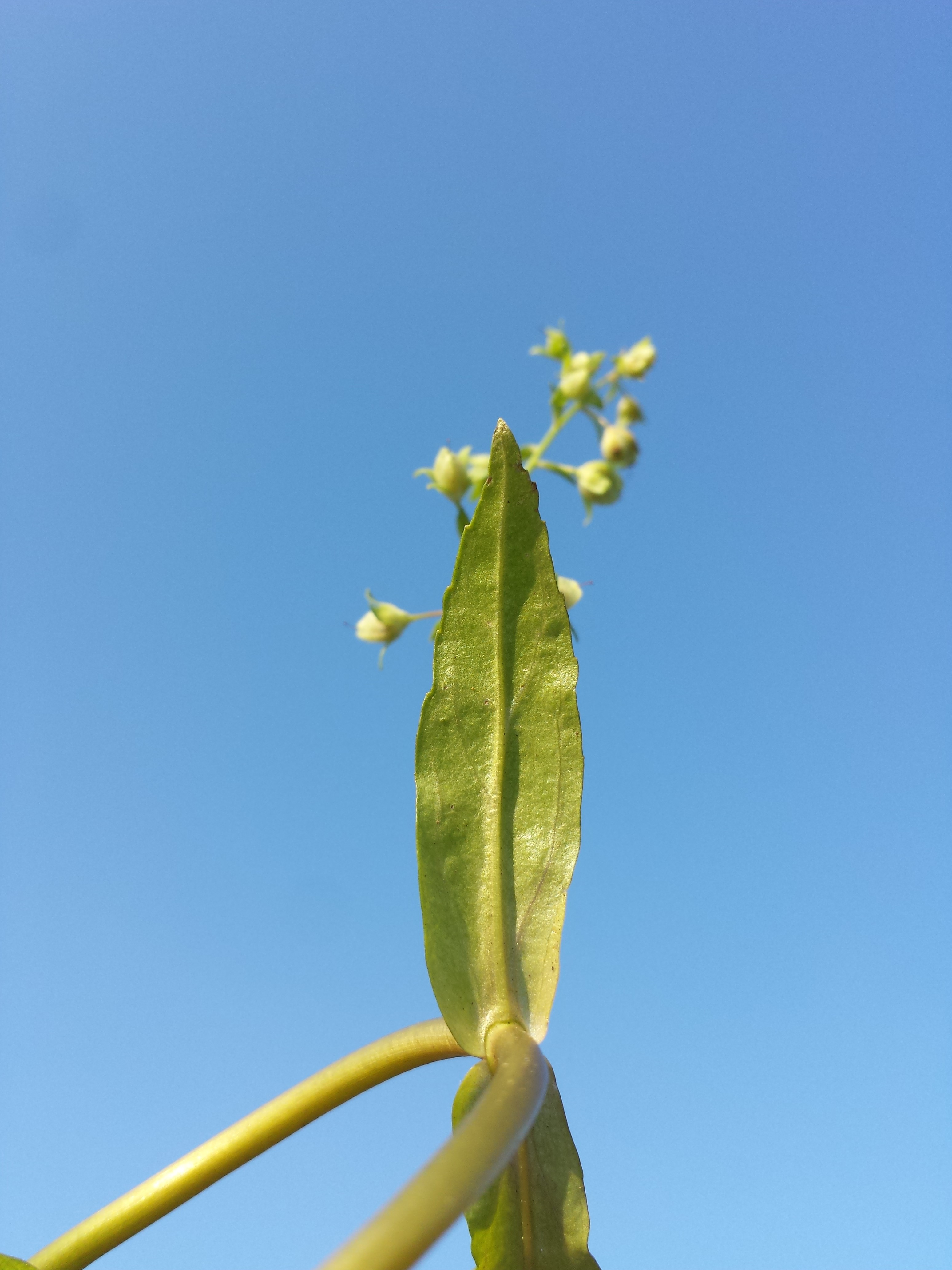 Stem with leaves Taxonym: Veronica catenata ss Fischer et al. EfÖLS 2008 ISBN 978-3-85474-187-9 Location: pond near Goldenes Bründl, Rohrwald, district Korneuburg, Lower Austria - ca. 225 m a.s.l. Habitat: shore of a pond